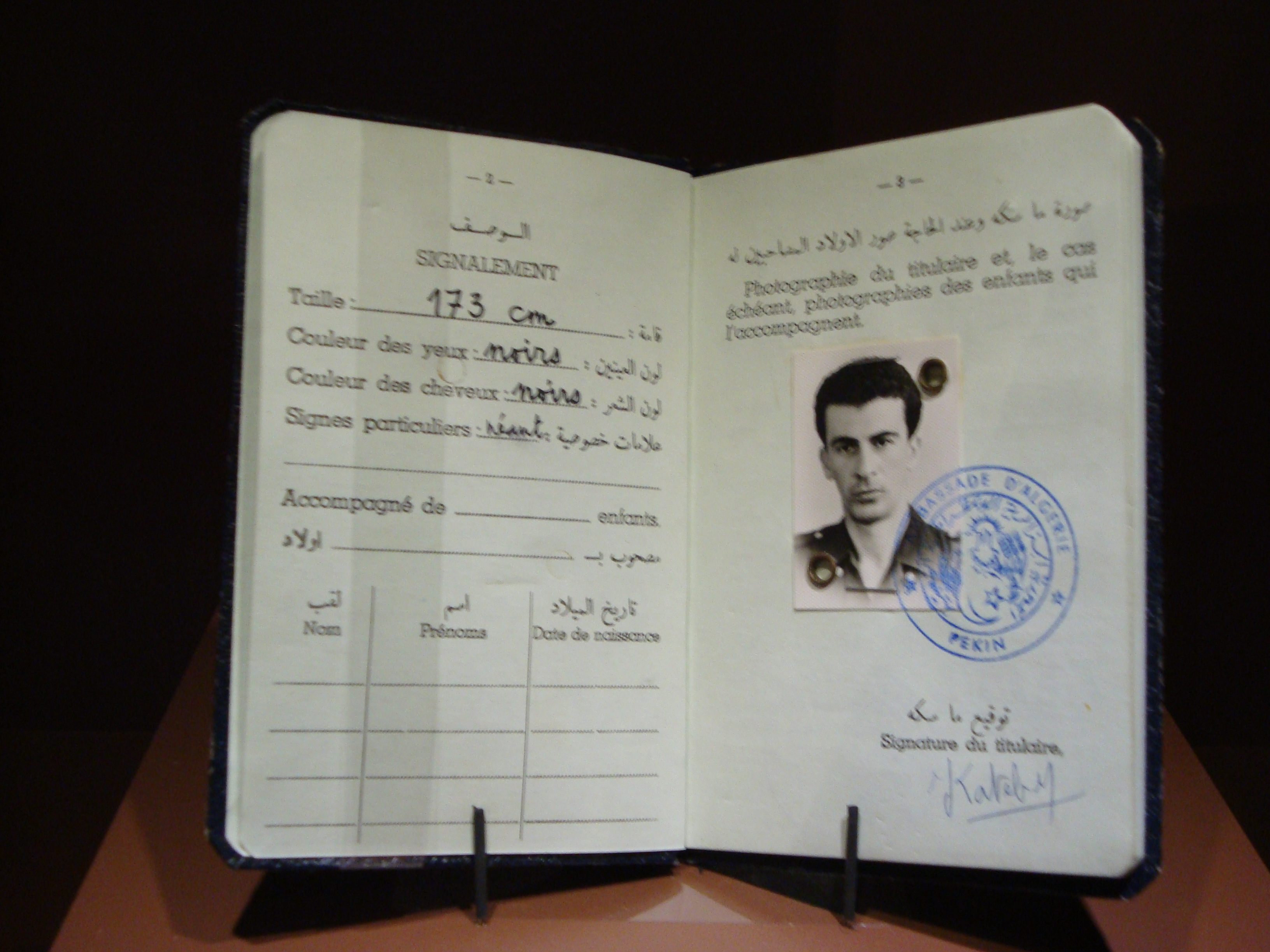 Kateb Yacine's passport